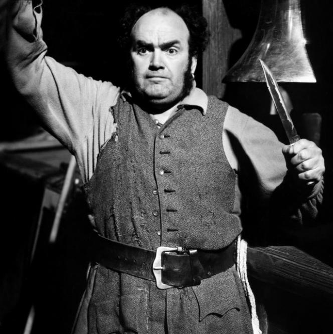 Rhys Williams in Mutiny (directed by Edward Dmytryk) - cropped screenshot